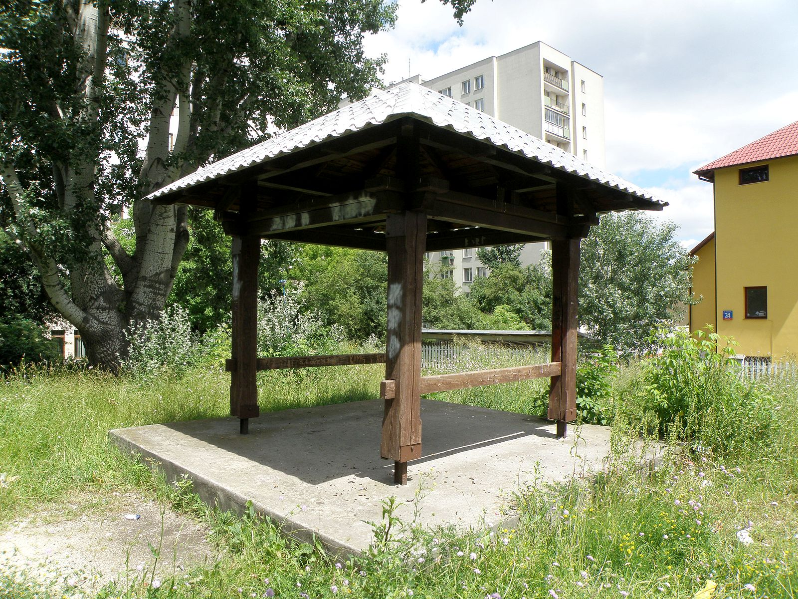 Bell of peace in Warsaw, Poland. Gift from Hiroshima city from 1989, stolen about 2002.